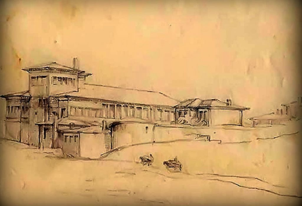 Ali Pasha's palace, Arta